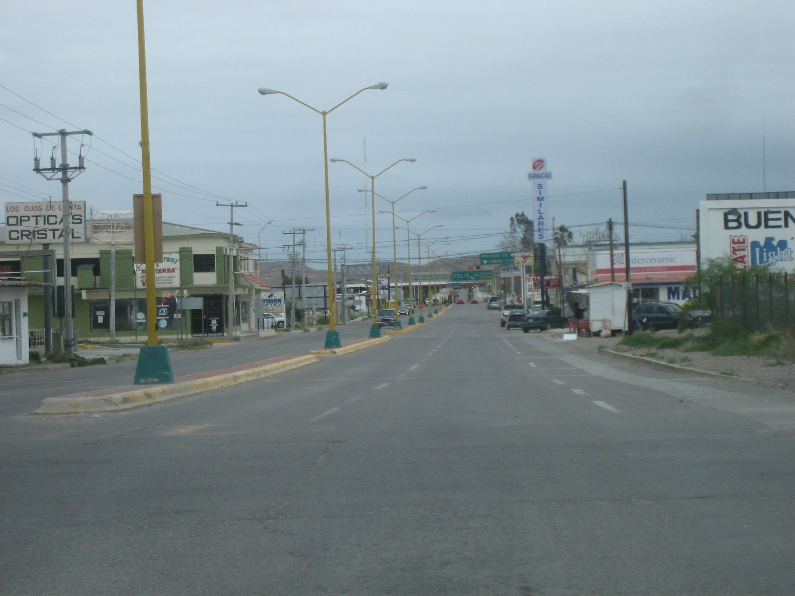 Just south of the U.S. border along Blv. Libre Comercio looking north on a cloudy day